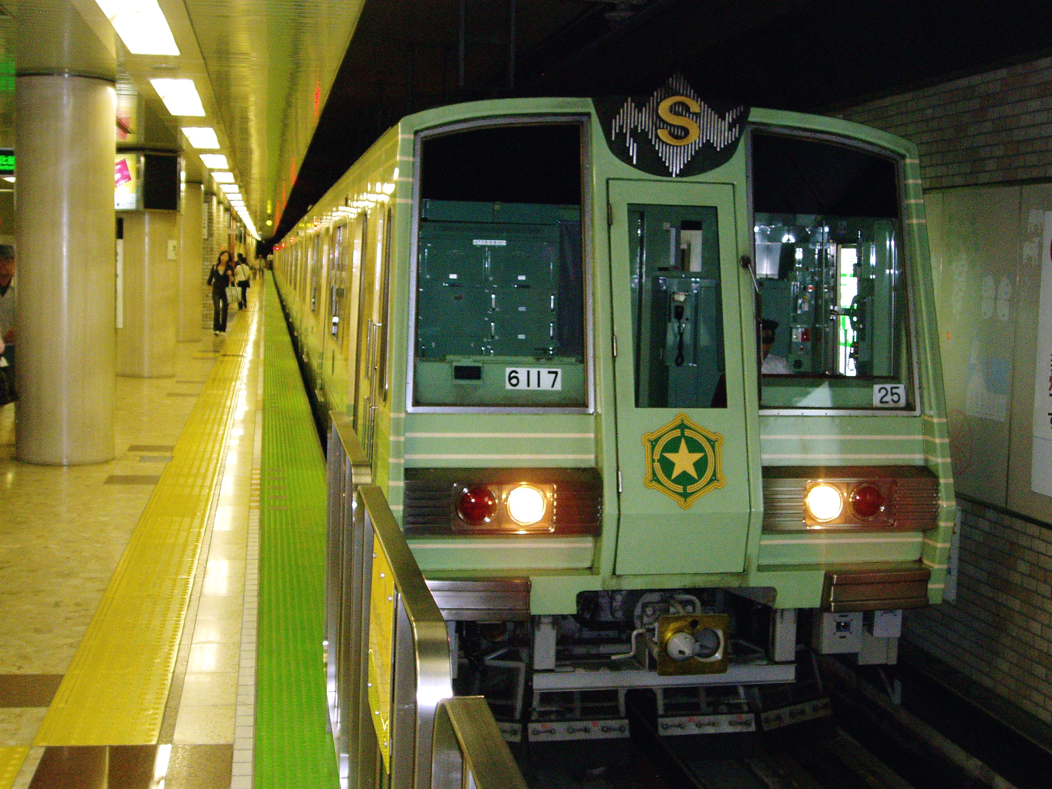 Sapporo City Transportation Bureau 6000-Type Railcar , at Oh-Dori station, To-zai-line, Sapporo-city, Japan.